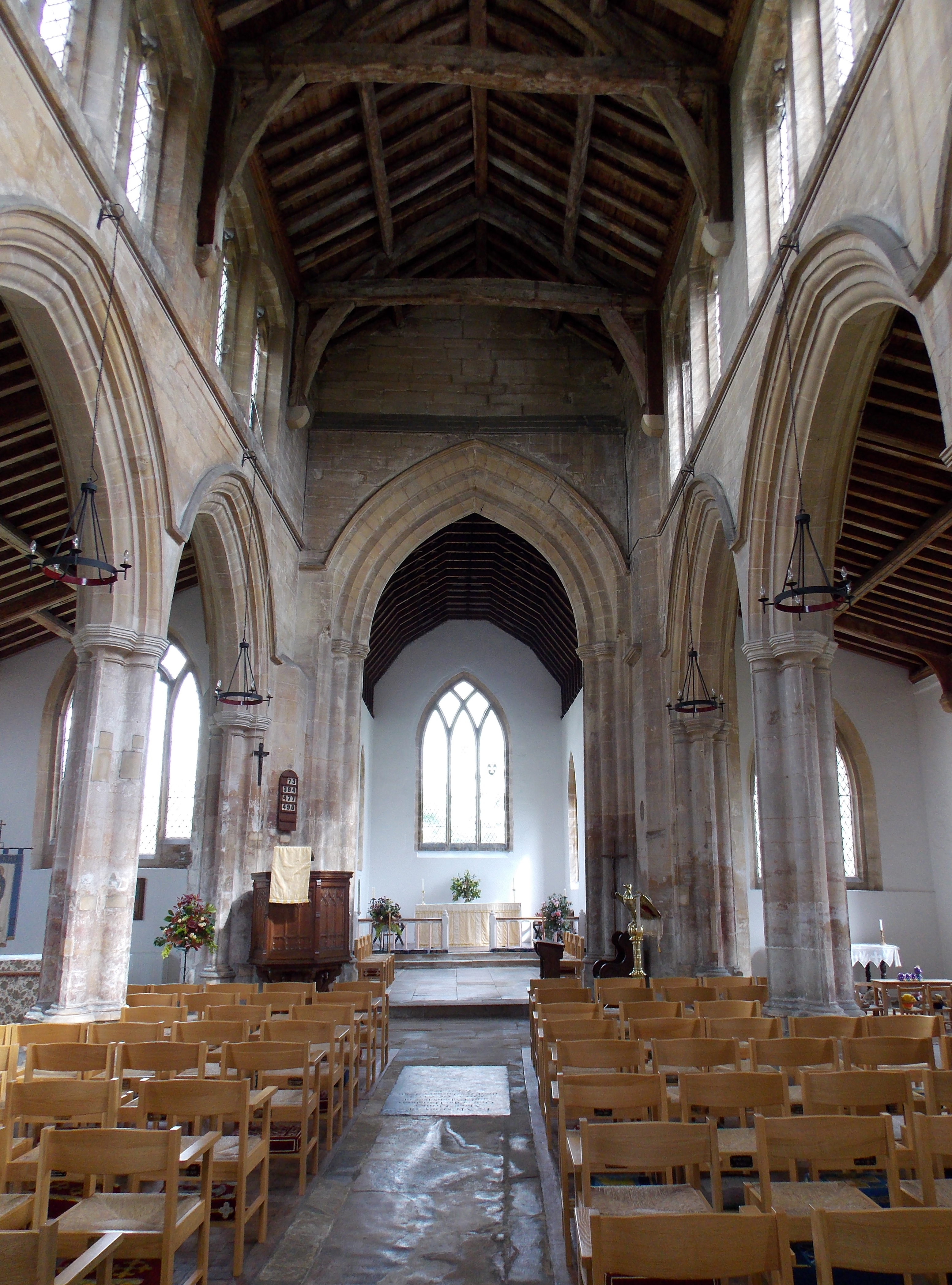 Aslackby St James, interior - Nave and Chancel from west